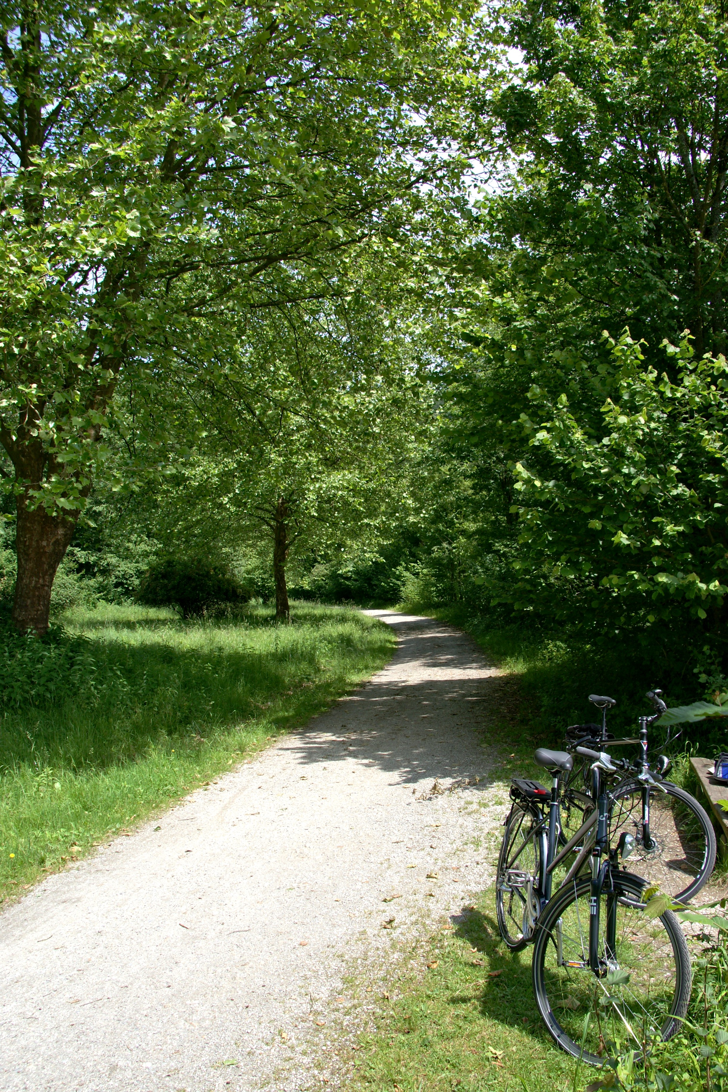 Cycle route along the Inn River between Passau and Wernstein